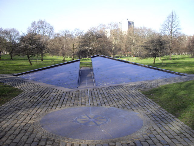 Canadian War Memorial In Green Park, Pierre Granche’s Canada Memorial, dedicated to the memory of Canadian soldiers who served in the two world wars.